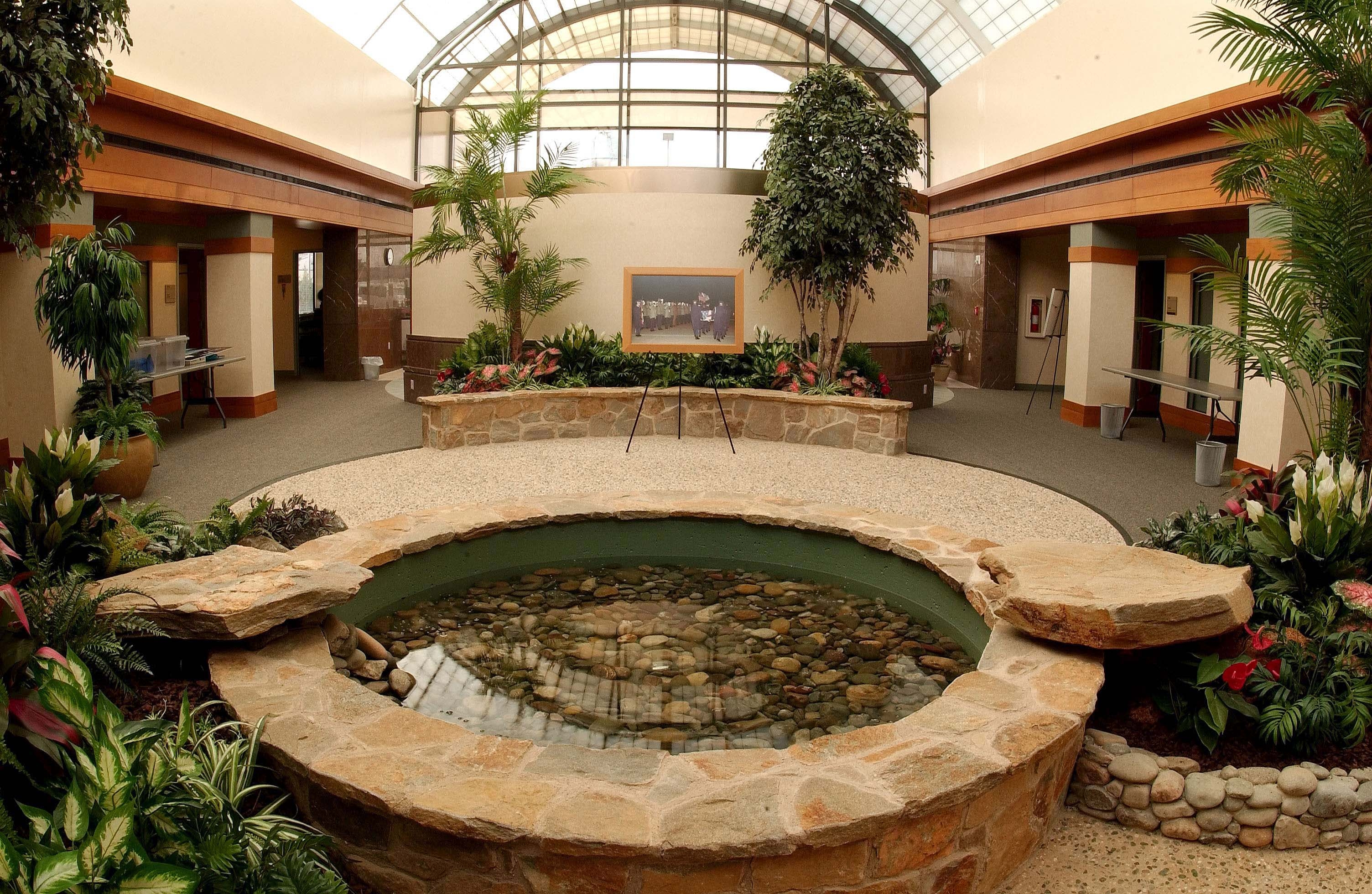 The Atrium at the Charles C. Carson Center for Mortuary Affairs, Dover Air Force Base, Delaware gives visitors, as well as workers, a place to rest and relax peacefully.